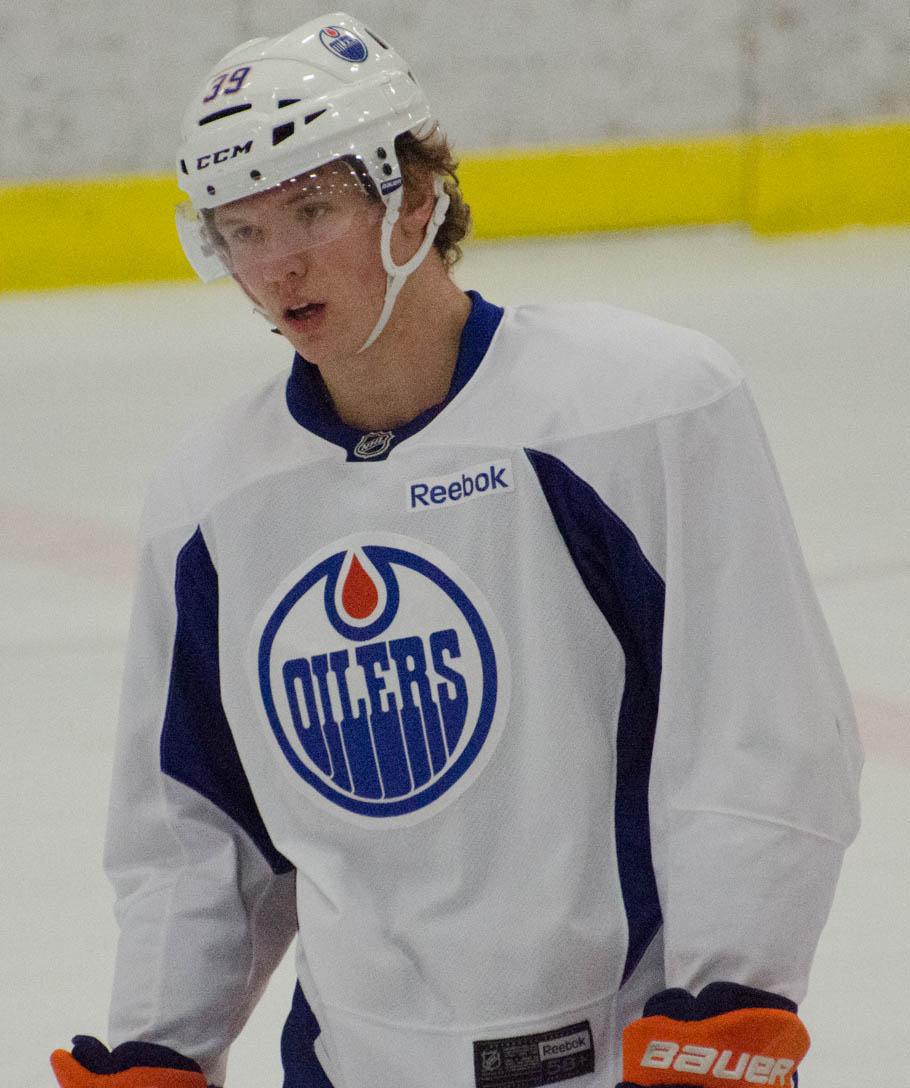 Bogdan Yakimov at an Edmonton Oilers practice, Sept. 27, 2014